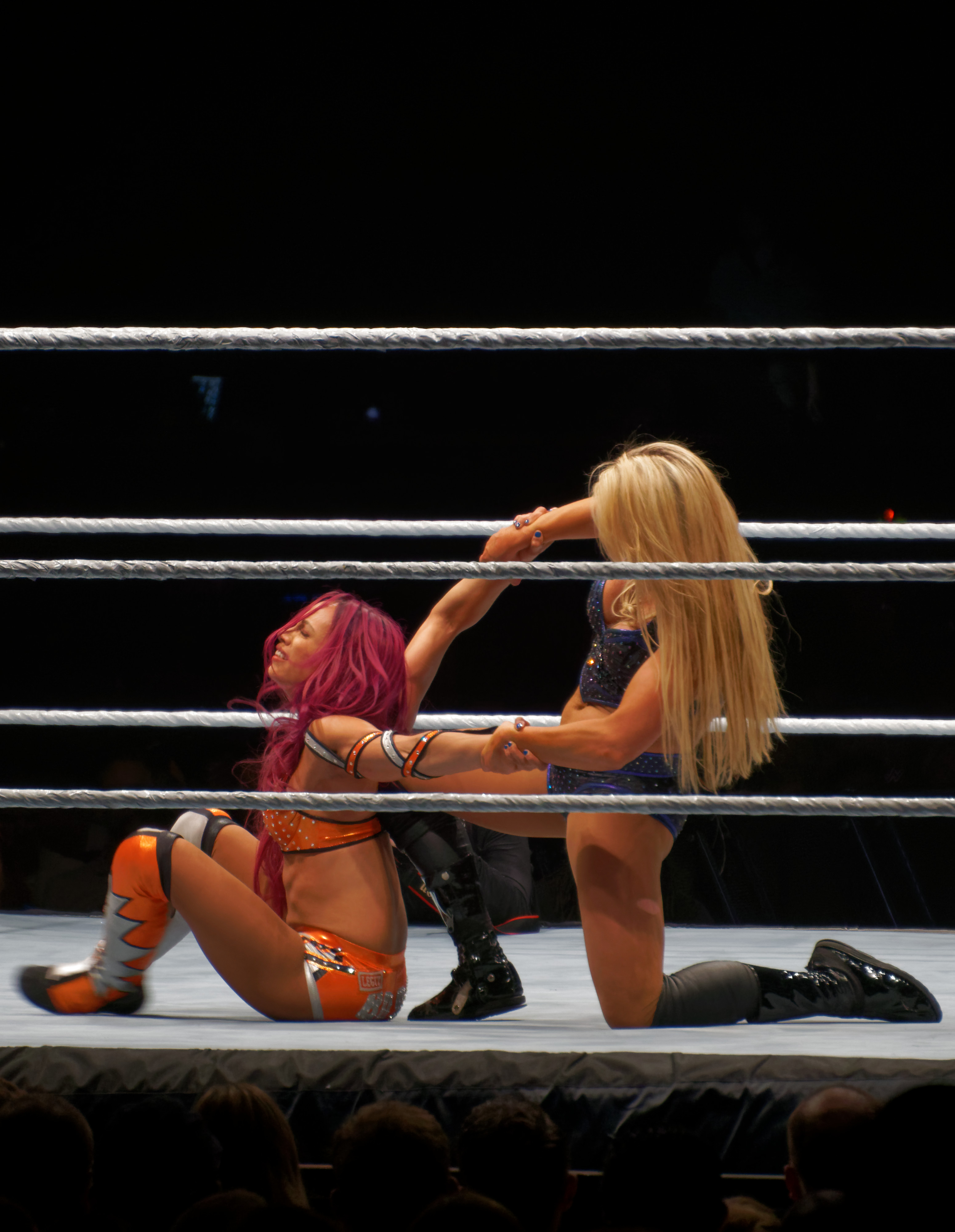 WWE Live returns to London this September Join Roman Reigns, Seth Rollins and more WWE Superstars at the 02 Arena for a one-night-only WWE Live in London on Wednesday, 7 Sept. Charlotte (c) def. (pin) Sasha Banks For : WWE Raw Women's Title